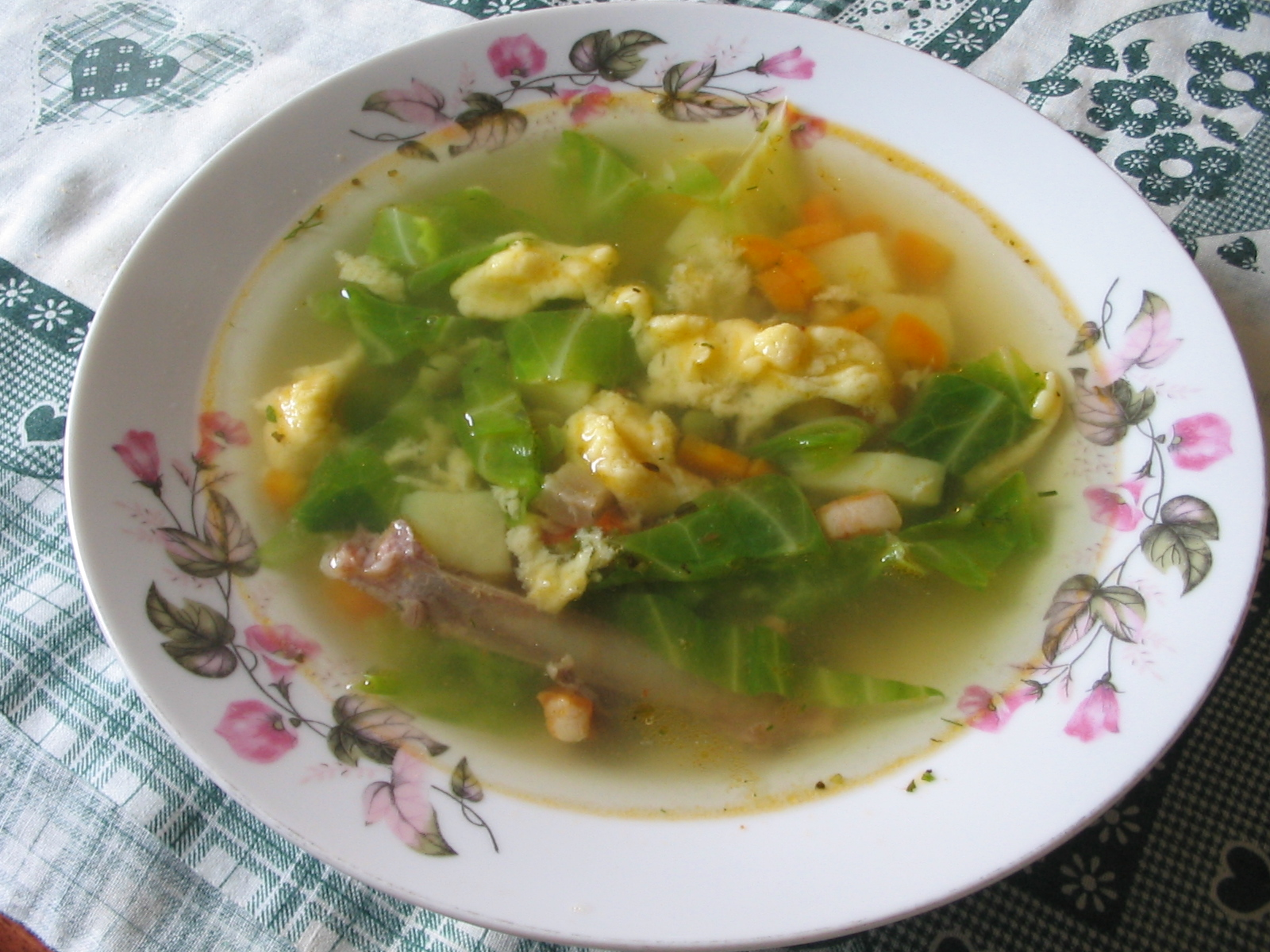 Vegatable soup with kluski